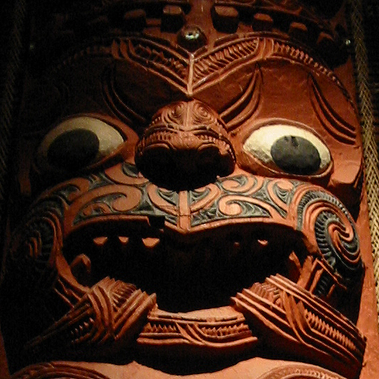 Detail of house post from Hotunui wharenui (carved Maori meeting house) built 1878, Ngati Maru of Hauraki, at Auckland Museum. Photo by uploader, 20 May 2006, no rights reserved. Kahuroa 18:52, 24 May 2006 (UTC) See also Image:Poumatua2.jpg, an uncropped version.